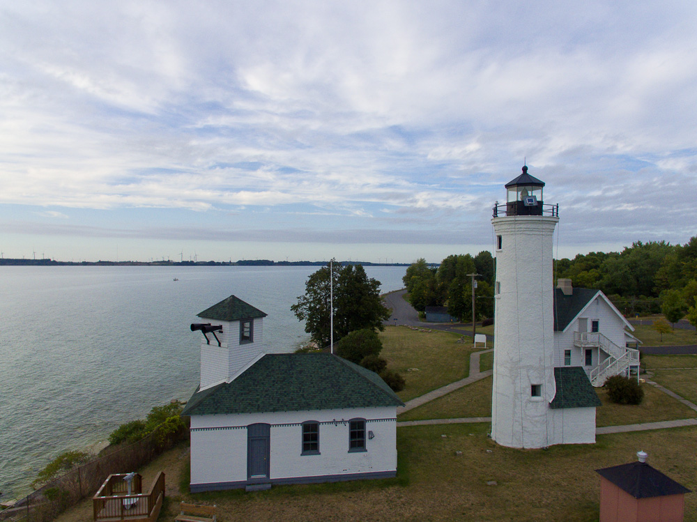 Tibbetts Point Lighthouse